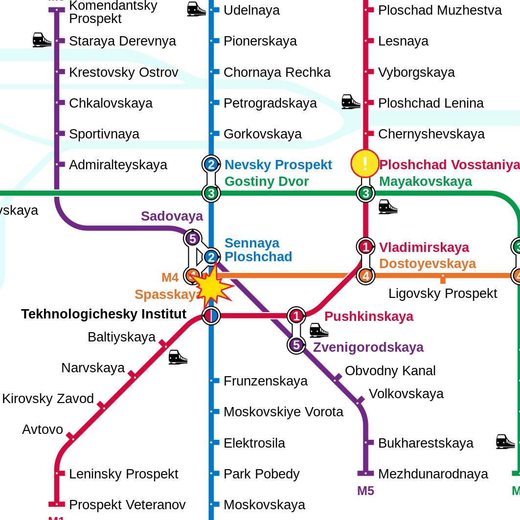 Explosion in the St. Petersburg Metro on April 3, 2017 in the tunnel between the stations "Sennaya Ploshchad" and "Tehnologichesky Institut". An exclamation sign noted an unexploded bomb at the station "Ploshchad Vosstaniya".